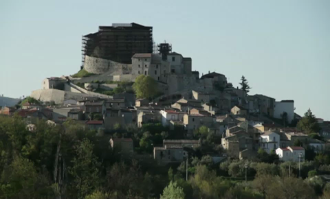 Carpineto sinello panorama